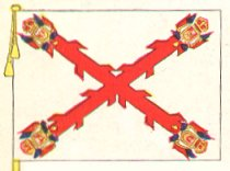 Flag of Spanish New Spain, from pre-1920 publication